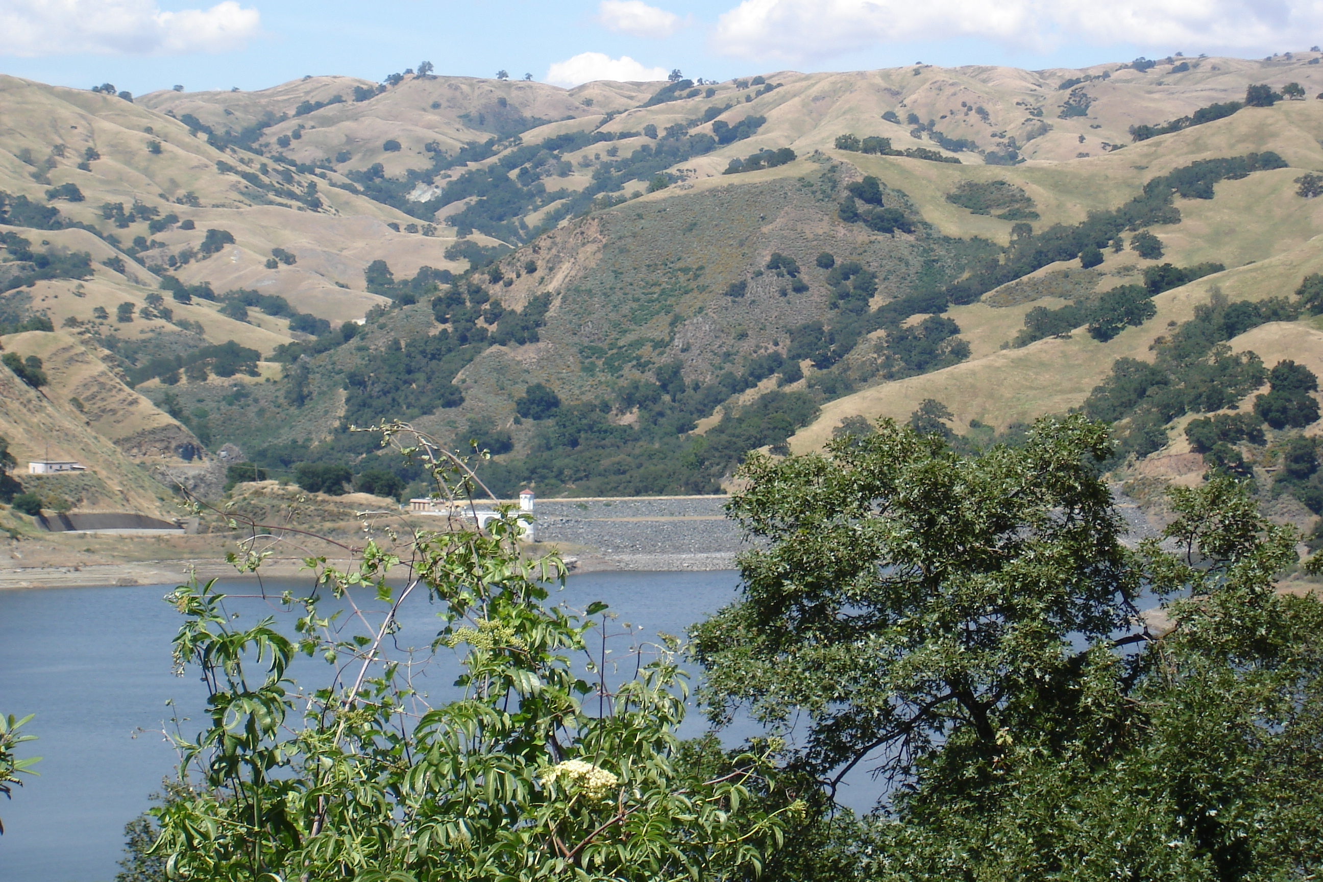 Calaveras Reservoir and Dam taken on May 28, 2006. Self-made